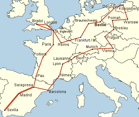 Circuit of Europe during the International Touring Aircraft Contest in 1930 (Challenge International de Tourisme 1930)